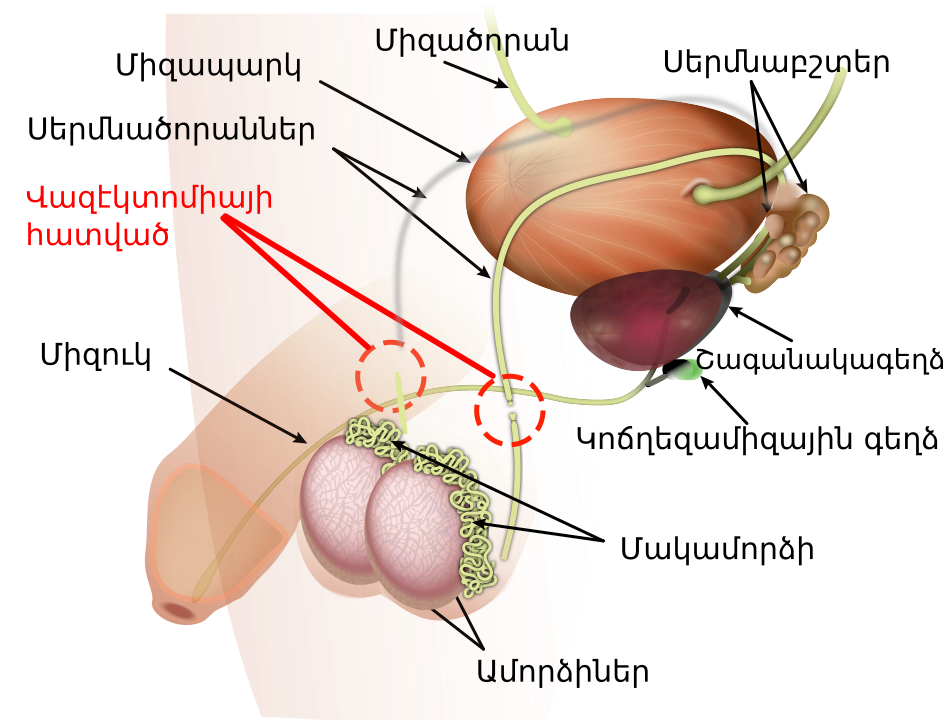 Diagram of the human male reproductive anatomy and the location of the surgical procedure for a vasectomy